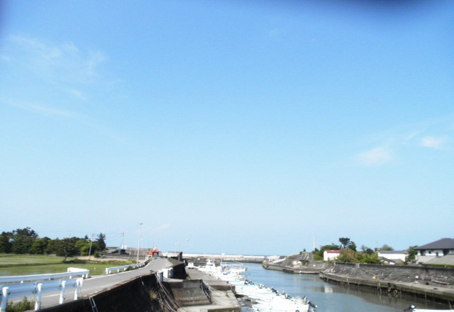 Nakagawatown Imazu Anancity Tokushimapregf Ikujima river